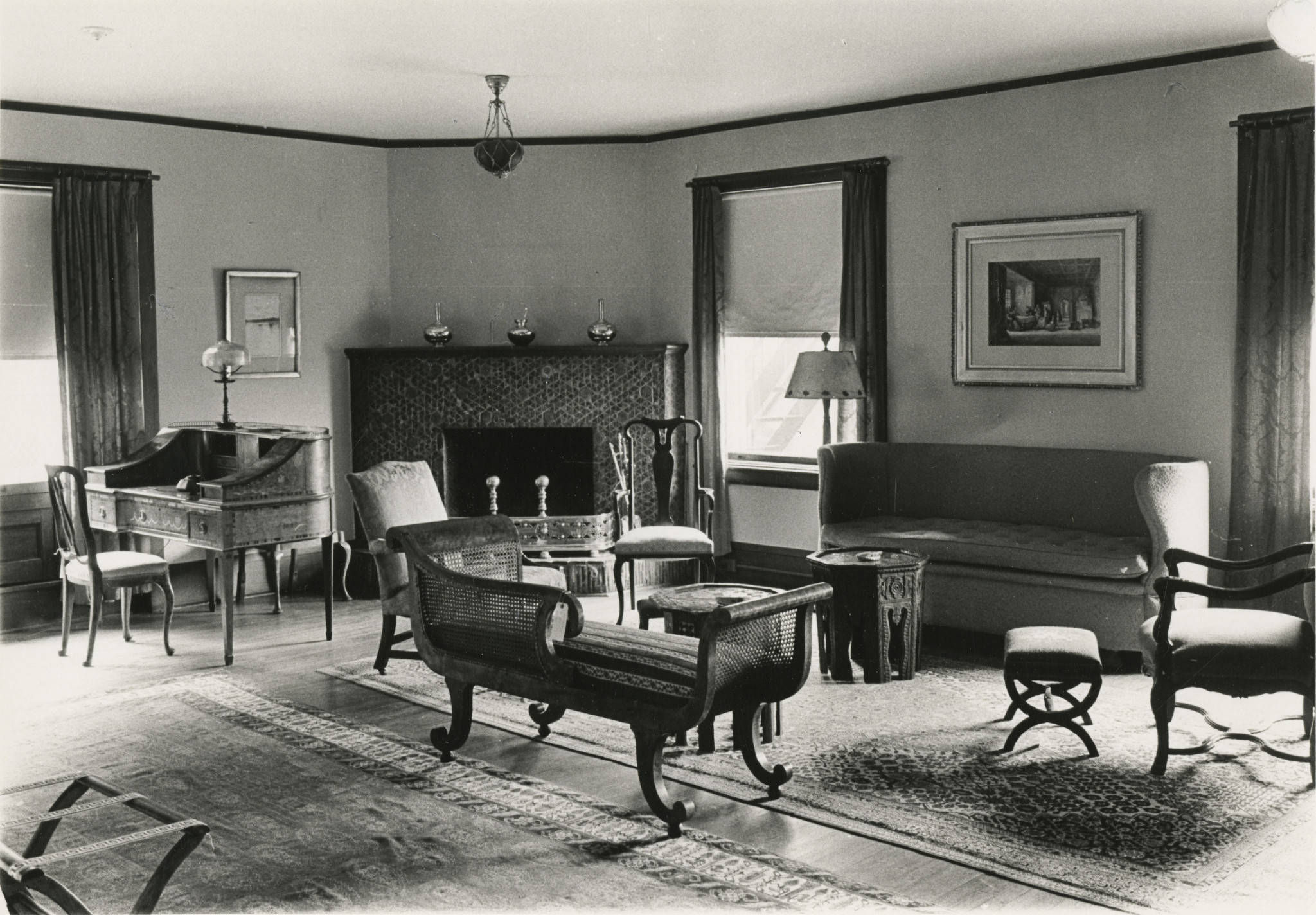 Deanery, Interior View, Miss Garrett's Bedroom, Bryn Mawr College